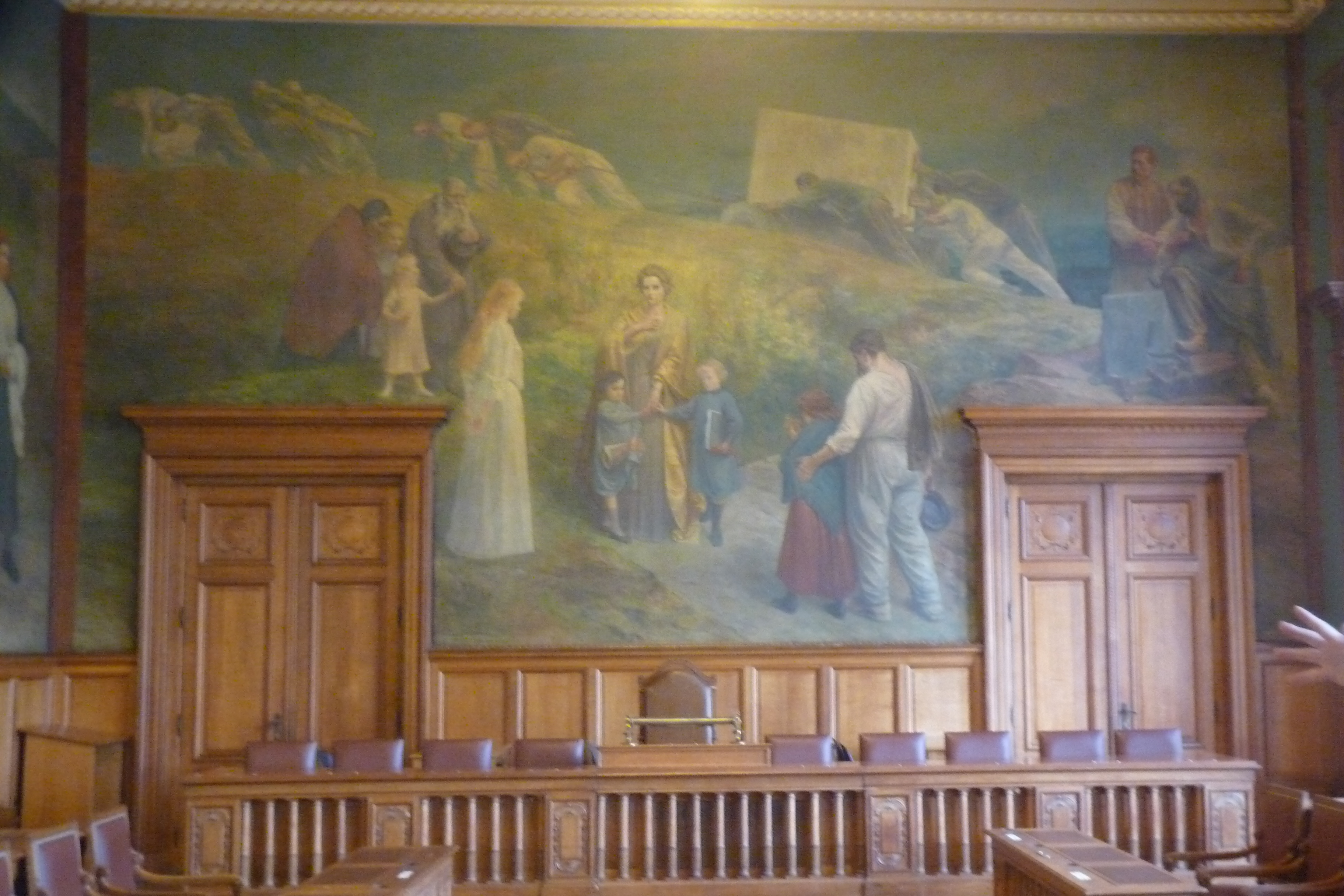 Wall painting by Eugène Broerman in de Council Room